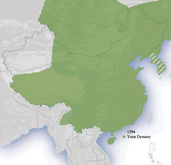 Yuen Dynasty 1294.png. Goryeo marked as vassal